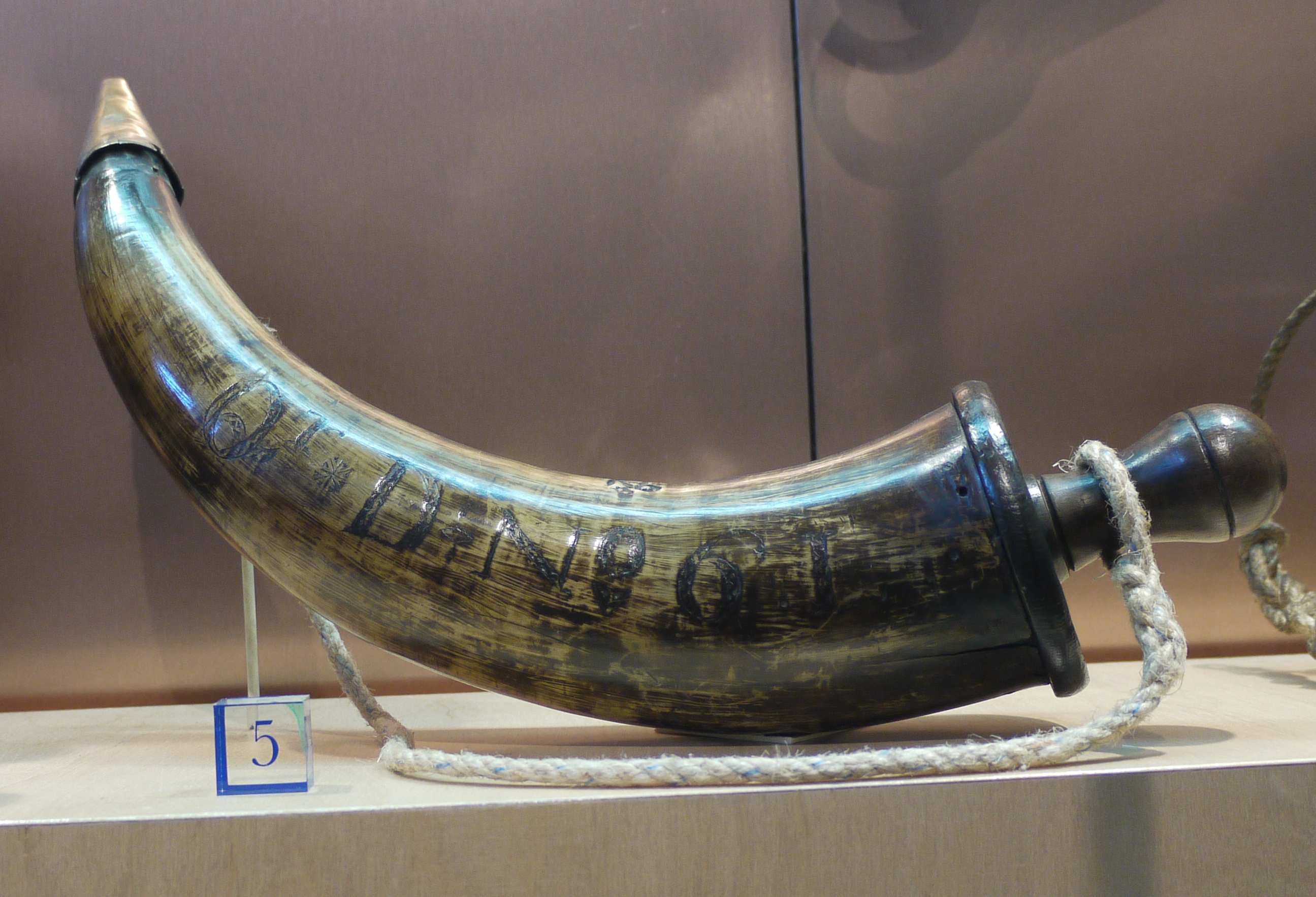 Photo of a powerder horn from the royal navy. Markings indicate it would have been used by the 6th gun on the Quarterdeck